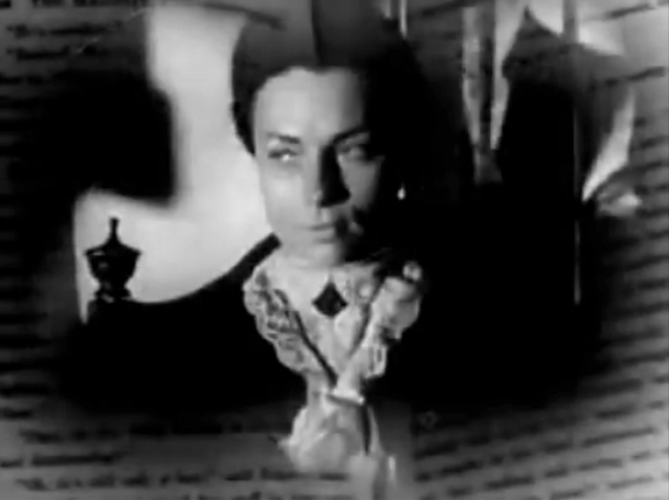 Cropped screenshot of Agnes Moorehead from the trailer for the film The Magnificent Ambersons.